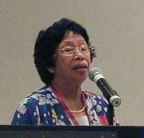 Photograph of Milagros Ibe giving a speech at Heritage Hotel